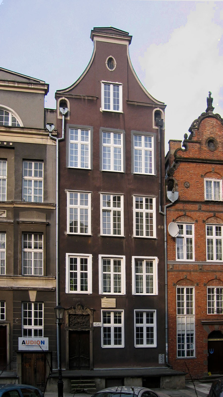 Gdansk, Poland, House of the Arthur Schopenhauer Family.